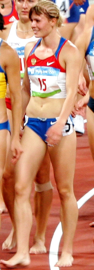 Russian heptathlete Olga Kurban walks with other competitors around the track at the 2008 Summer Olympics in Beijing, China.